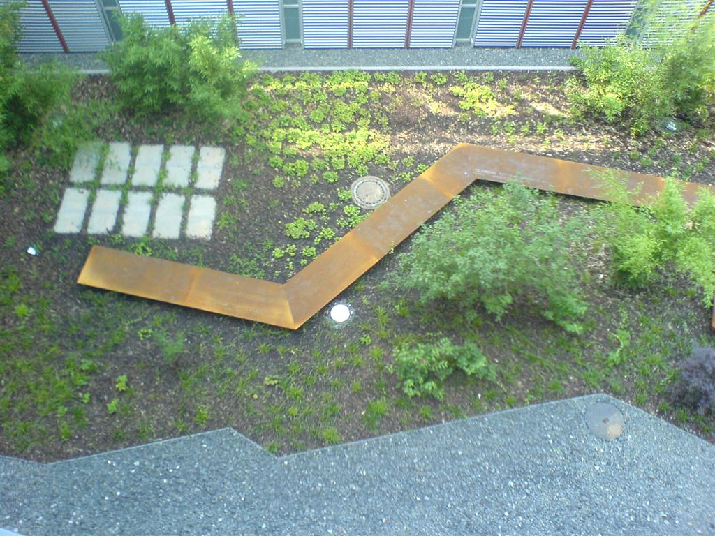 The atrium of the Geozentrum at Uni Trier (Campus II)